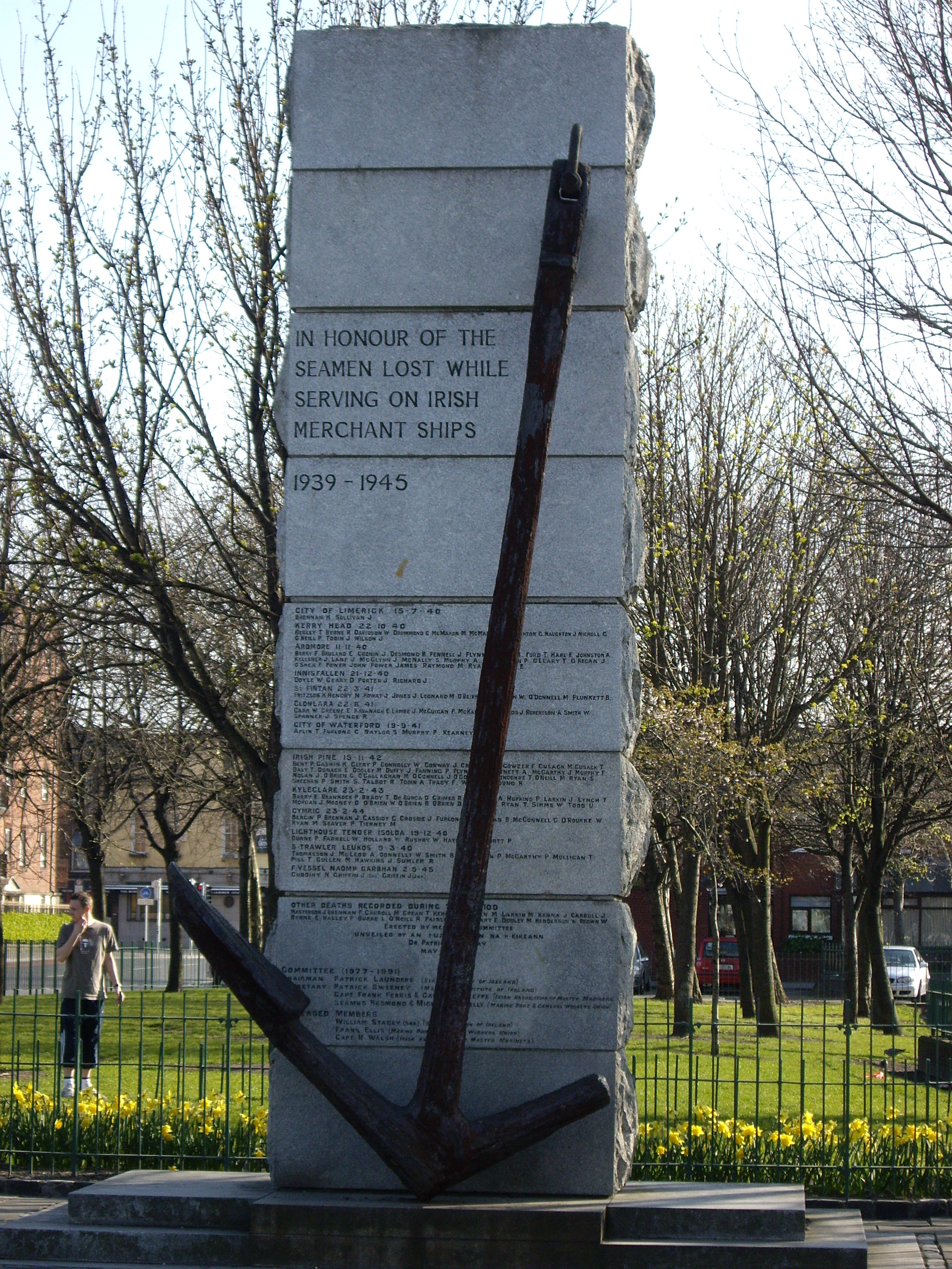 Memorial erected 1991 to Irish merchant seamen lost during WWII